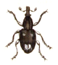 Graptus triguttatus, from Calwer's Käferbuch, Table 31, Picture 15. Taxonomy was updated to 2008, using mostly the sites Fauna Europaea and BioLib. Please contact Sarefo if the determination is wrong!